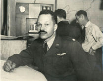 Major Archie Williams at the 20th Weather Squadron, Japan. Archie Williams, 1936 Olympic Gold Medal winner was later Archie Williams, Air Force Weather officer and pilot. With a need for thousands of weather officers in the expanding Army Air Forces in World War II, a Meteorology Aviation Cadet program trained more than 5,600 weather officers at five universities nationwide by the time the last class graduated in mid-1944.